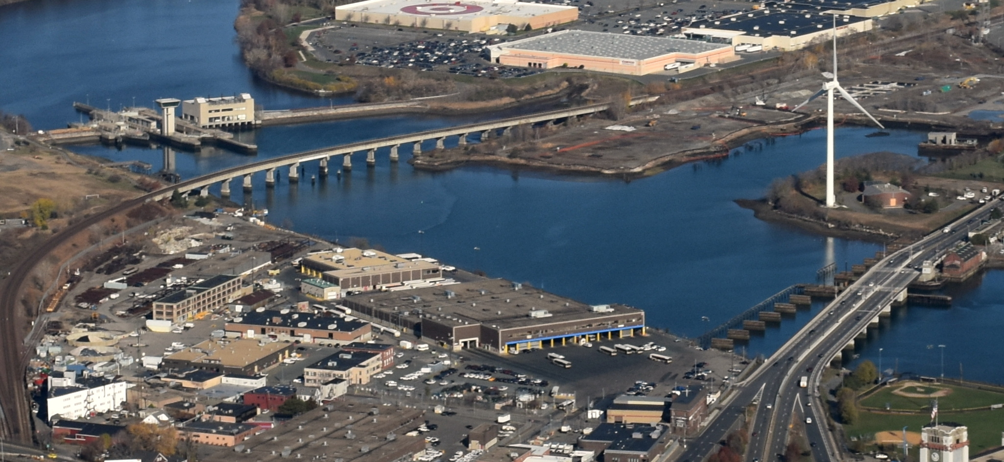 Aerial view of the Mystic River in November 2015. The Amelia Earhart Dam and the Newburyport/Rockport Line bridge are at top left, site clearing for the Wynn Everett casino and the Gateway Center at top, the remains of the Charlestown Elevated bridge next to the Alford Street bridge at lower right, and the MBTA's Charlestown and Somerville garages at bottom.